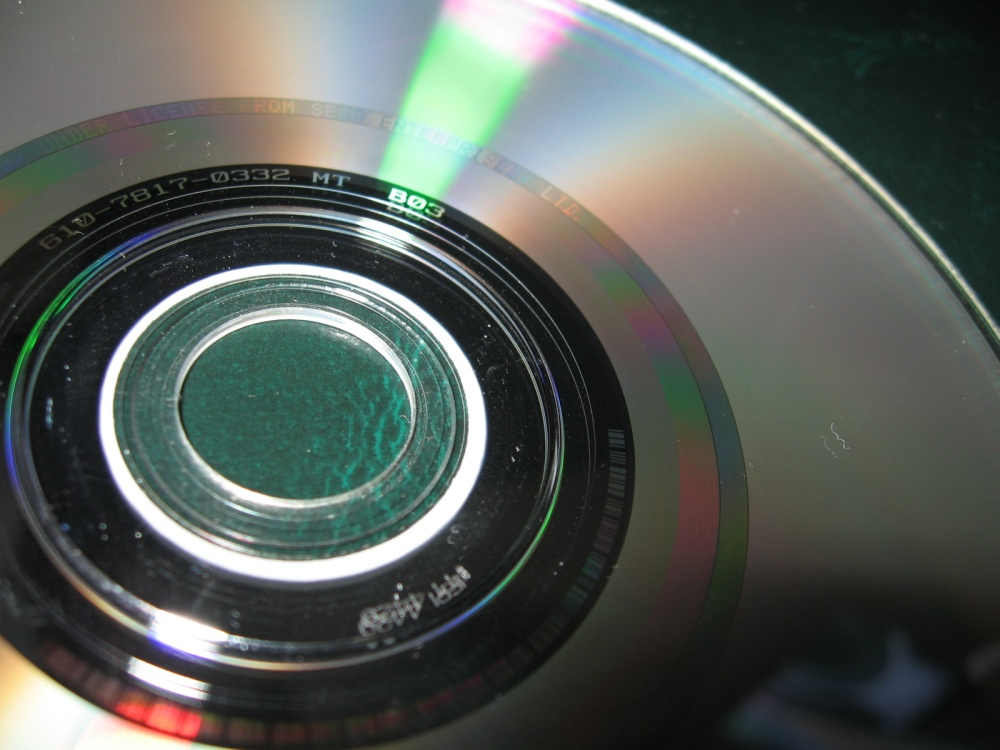 The underside of a GD-ROM disc with some dust on it.